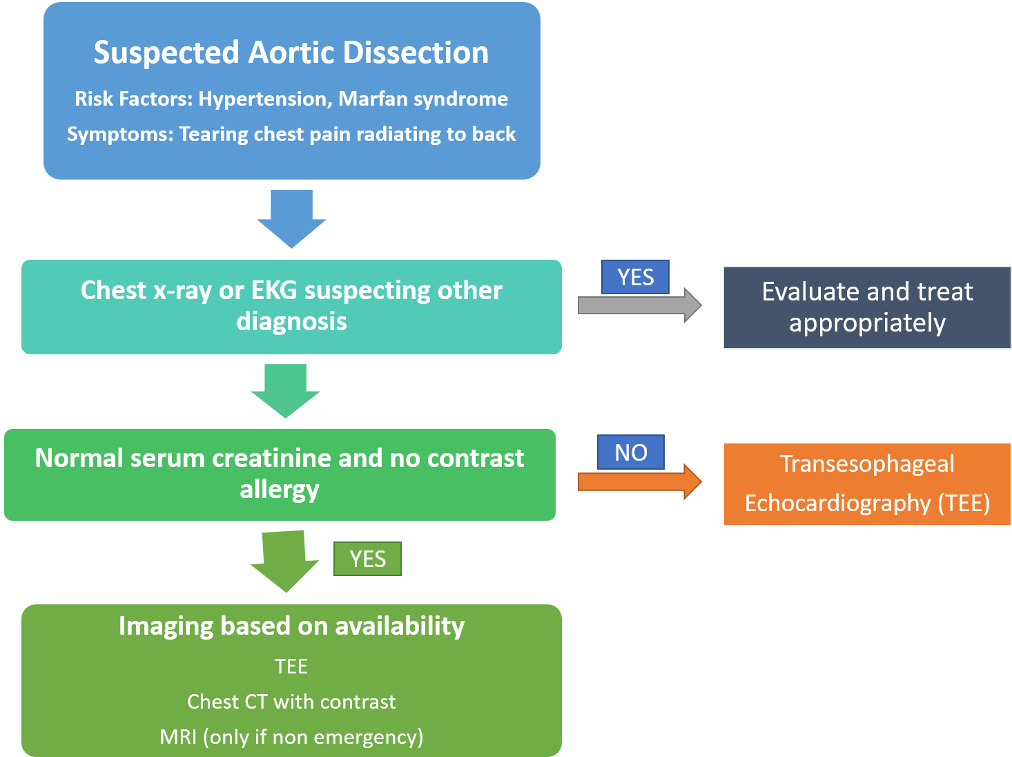 Diagnostic Algorithm of aortic dissection